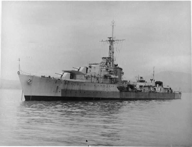 Photograph of British Z class destroyer HMS Zenith.